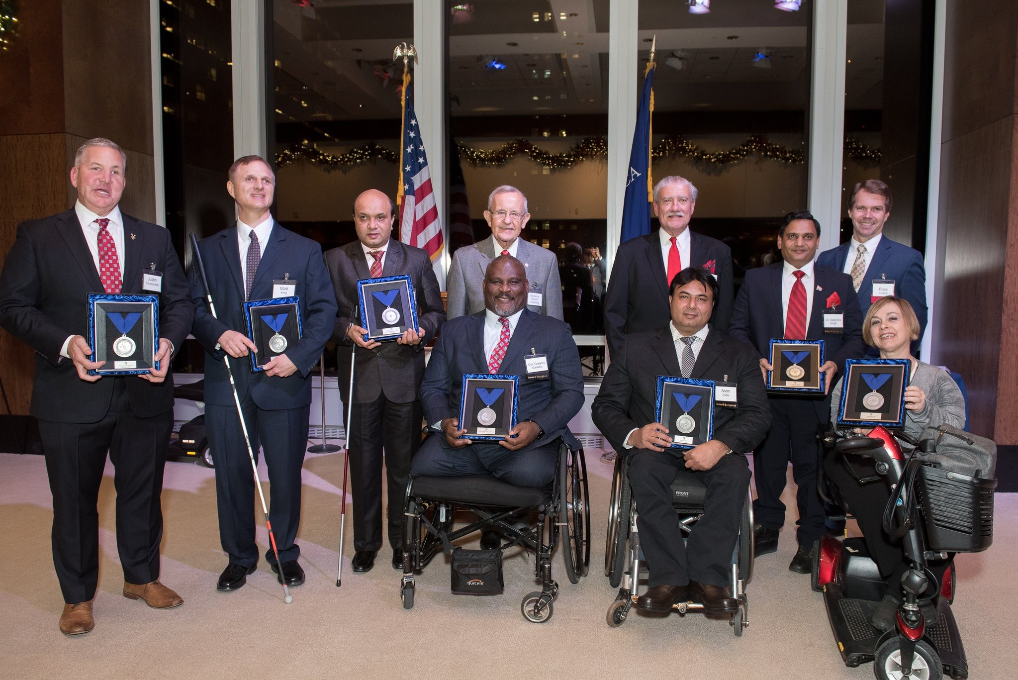 These global disability awards identify and honor leaders with with disabilities for their work and influence on the global disability community.